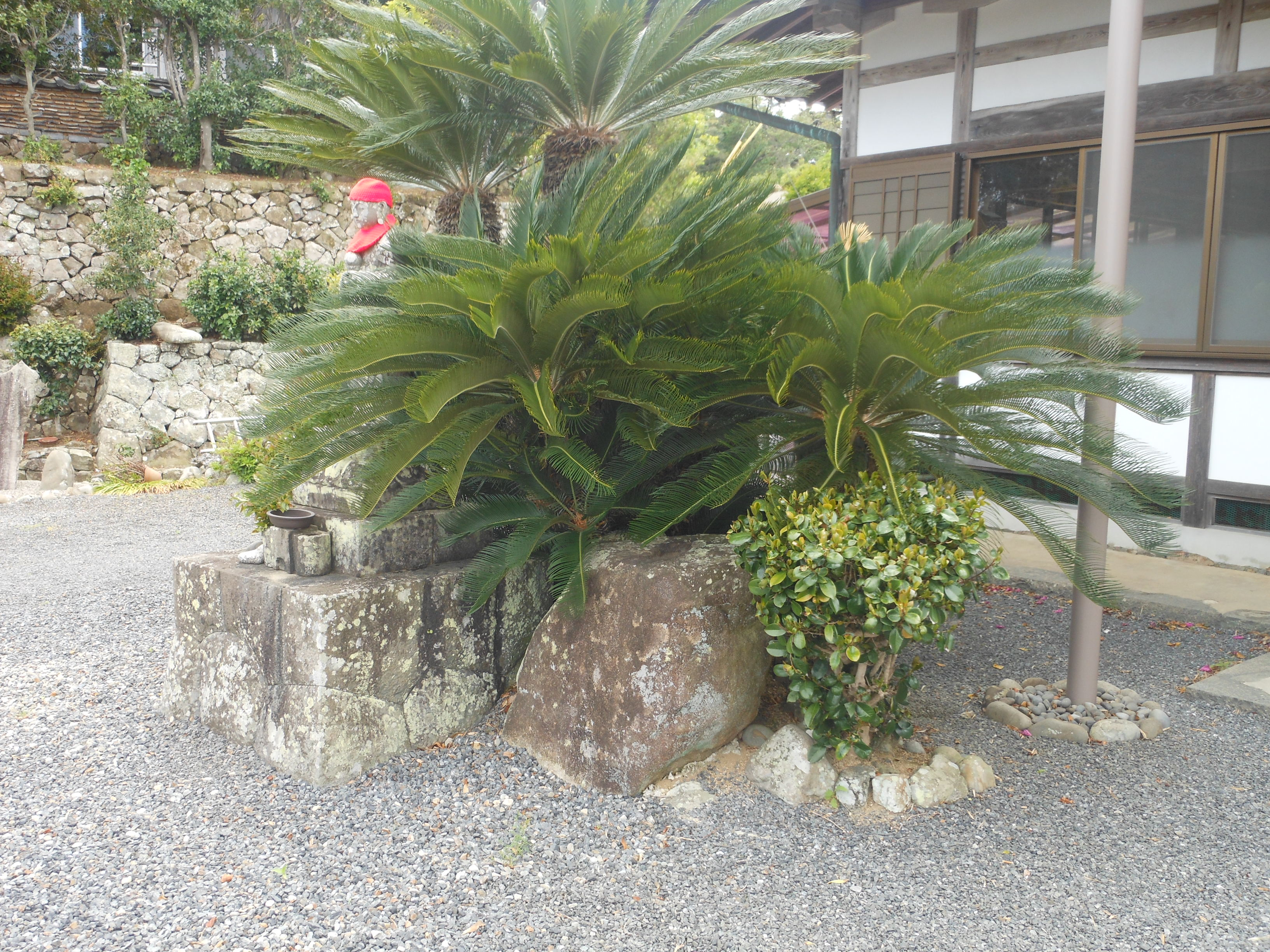 This is a Koboshi stone in Fumon-ji temple's garden in Shimacho-Koshika, Shima, Mie, Japan.